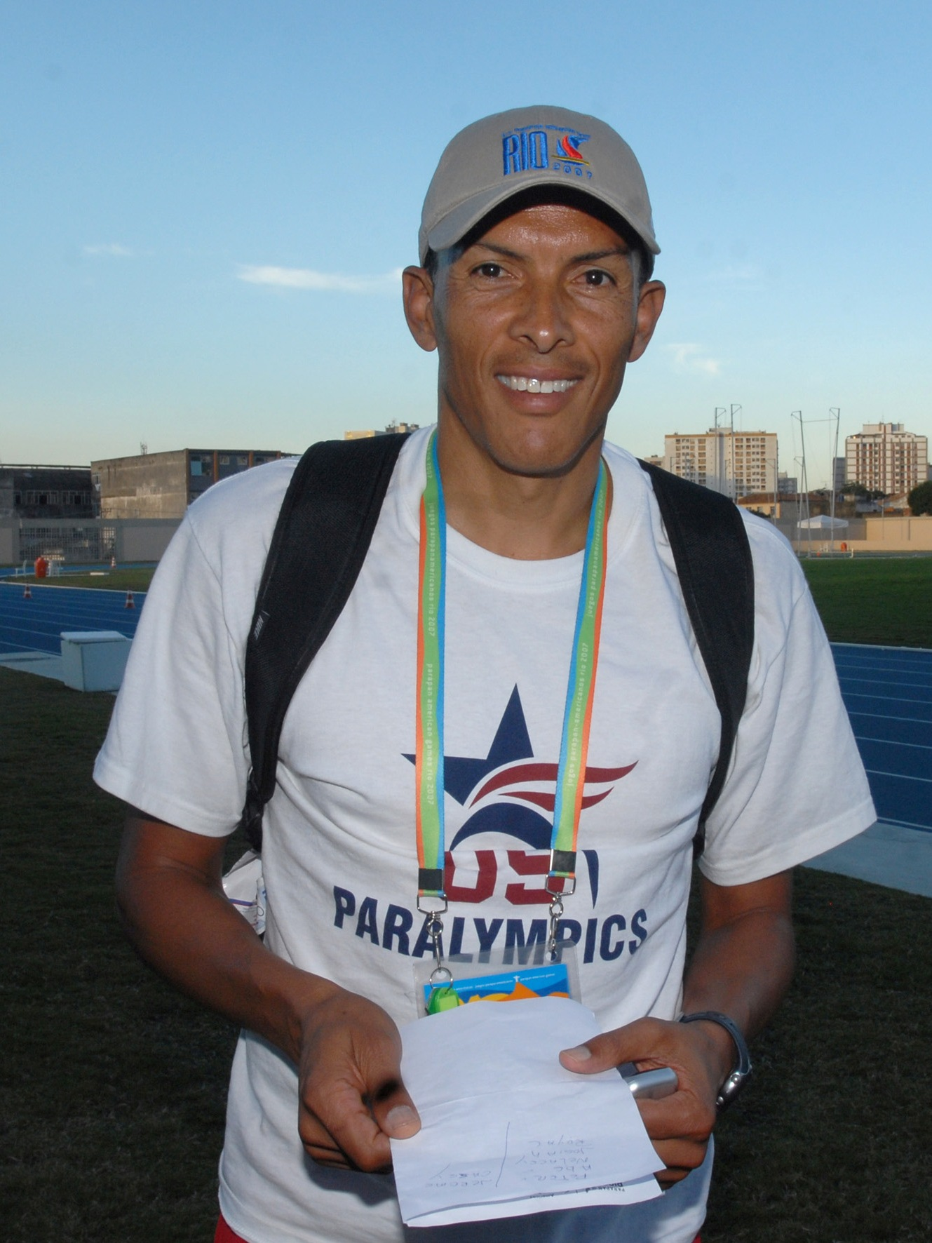 Joaquim Cruz, brazilian olympic champion, at Panamerican Games 2007